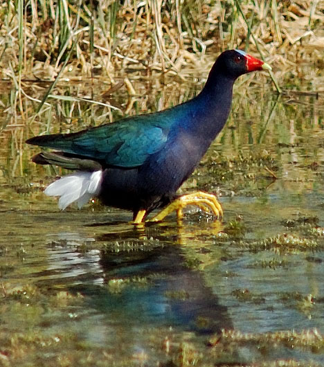 Purple Gallinule (Porphyrio martinica). Along Turner River Rd. in the Big Cypress National Preserve, Collier Co., Florida.